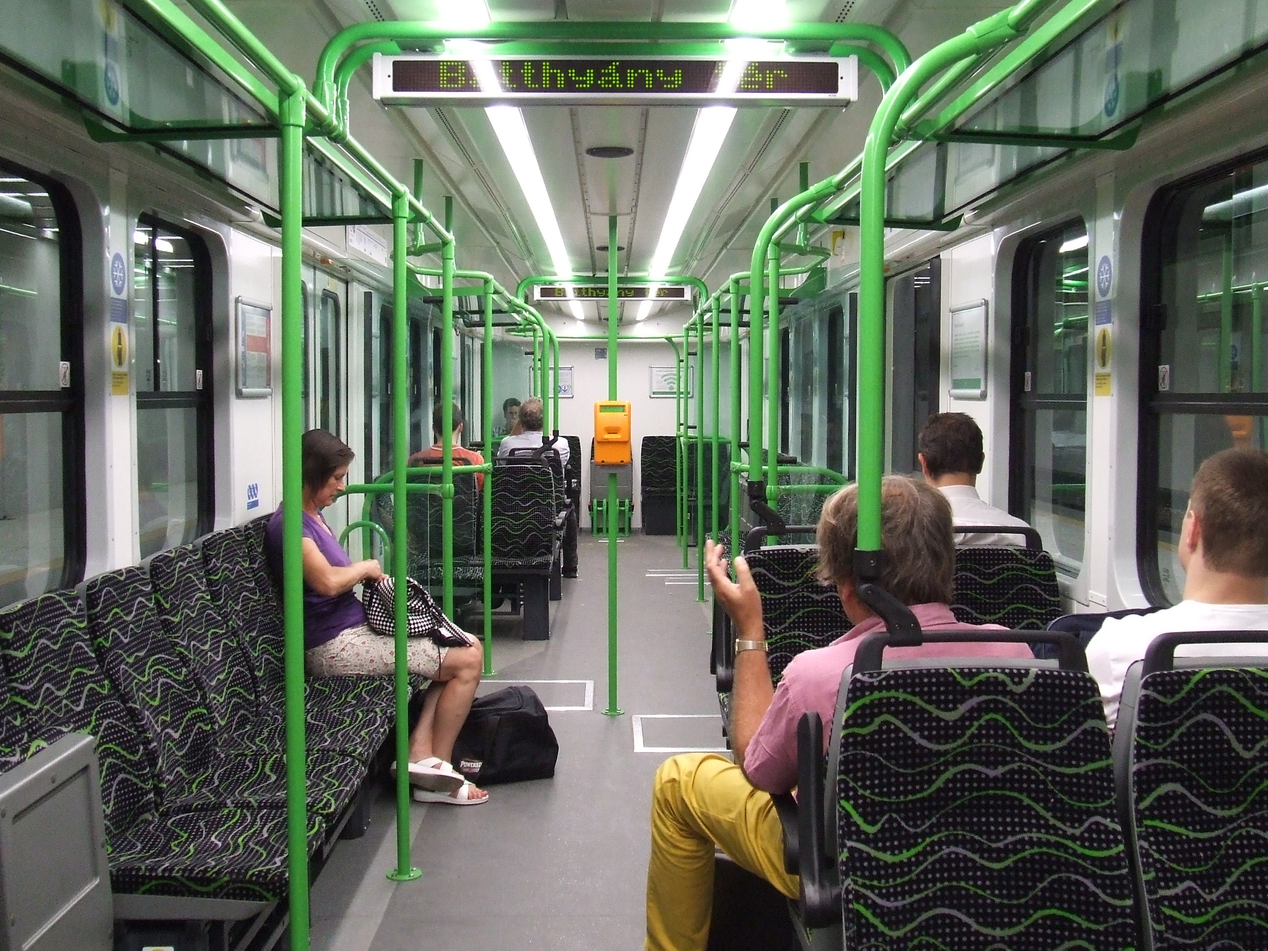 Redesigned suburban railway train in Budapest. It's named to superhév by index.hu.